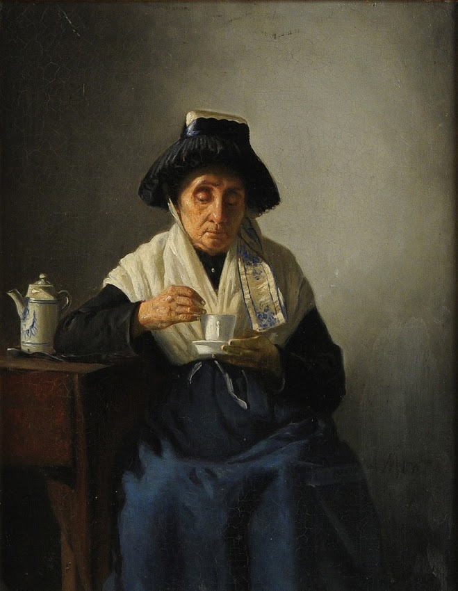 Woman with coffee cup